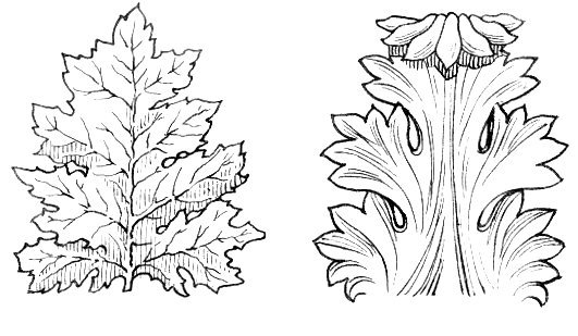 line art of acanthus